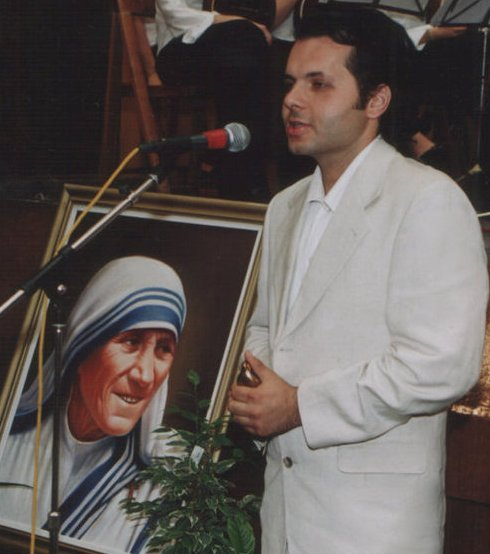 Митко Тошев - добивање на хуманитарна награда "статуетка Мајка Тереза"